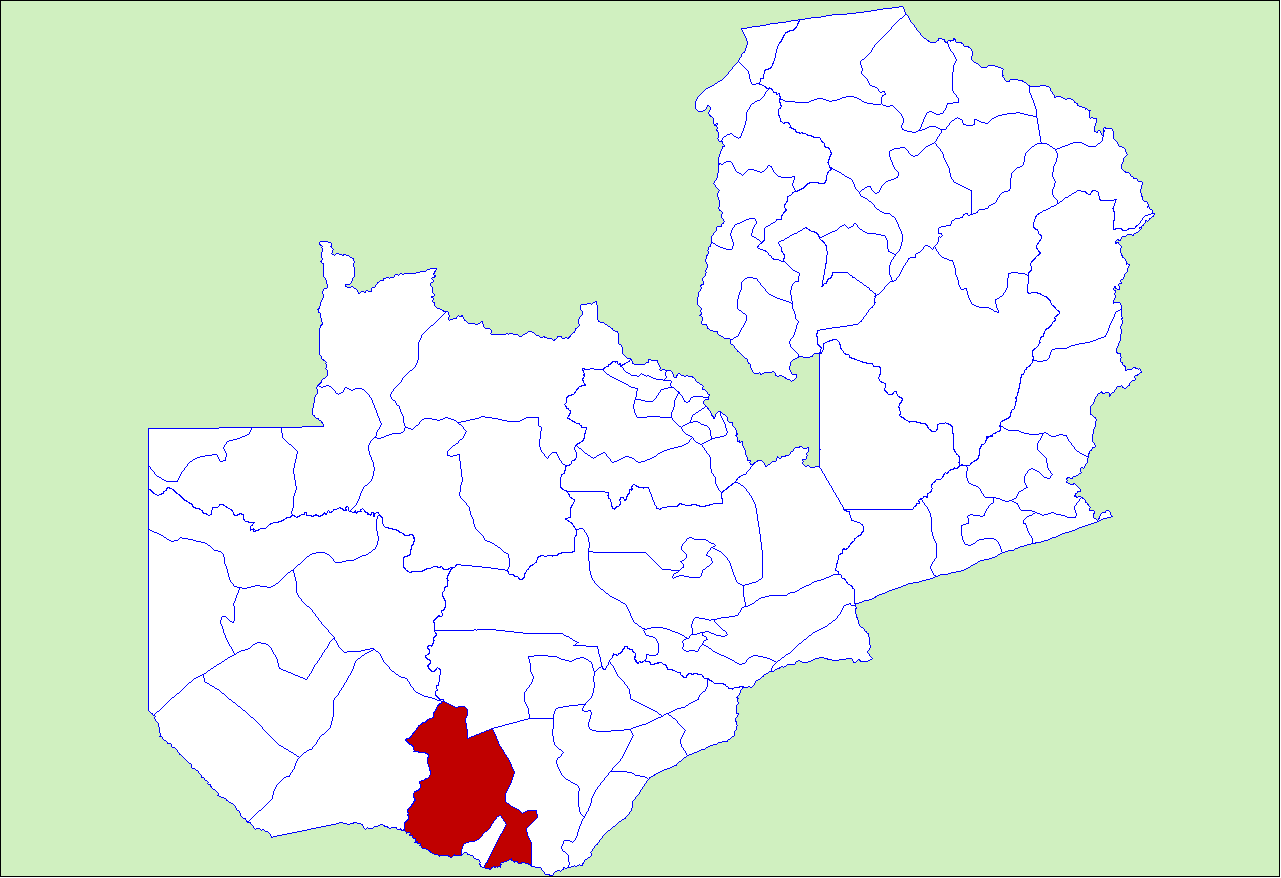 District locator in Zambia